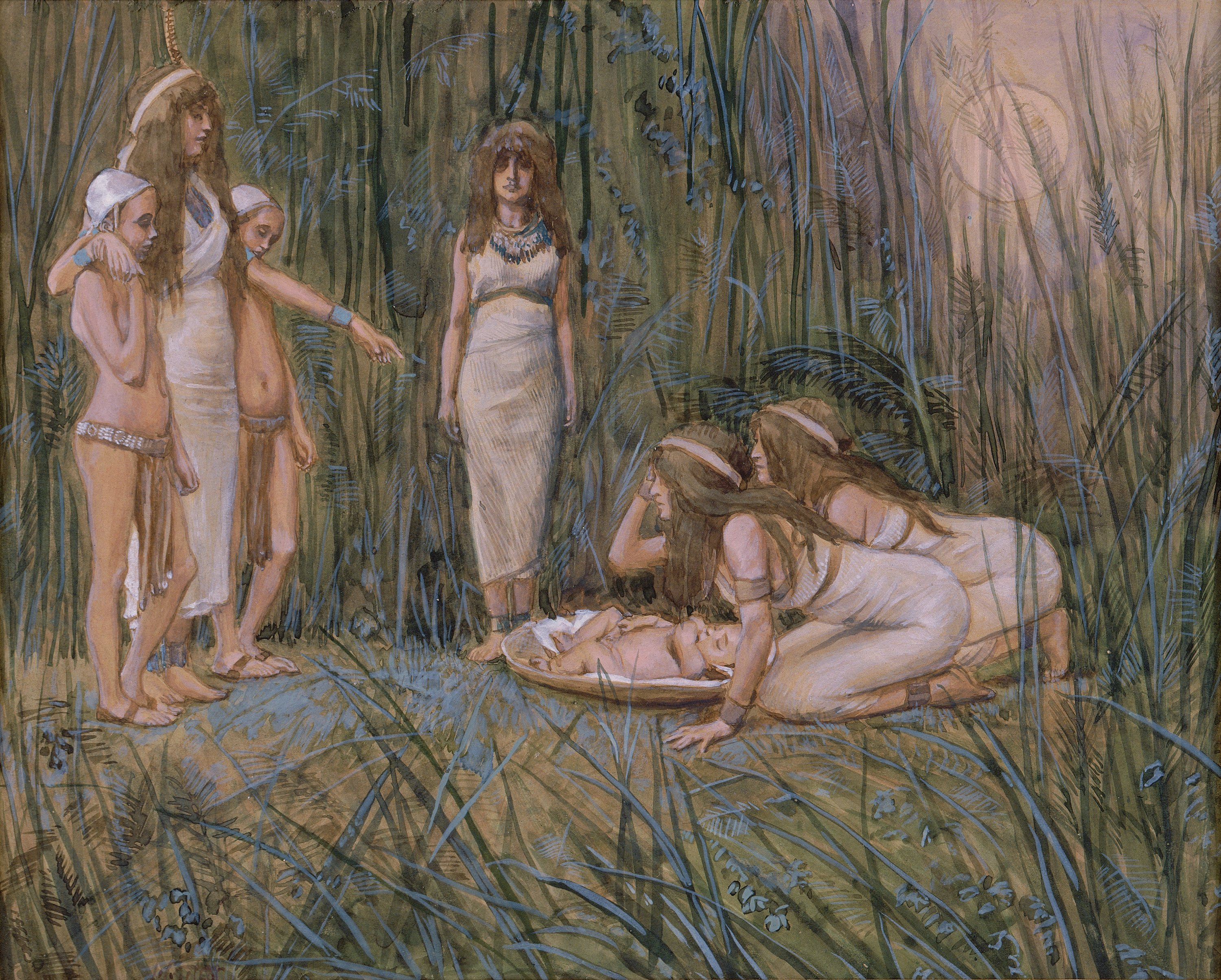 Pharaoh's Daughter Receives the Mother of Moses, c. 1896-1902, by James Jacques Joseph Tissot (French, 1836-1902), gouache on board, 8 5/8 x 10 7/16 in. (22.5 x 26.5 cm), at the Jewish Museum, New York